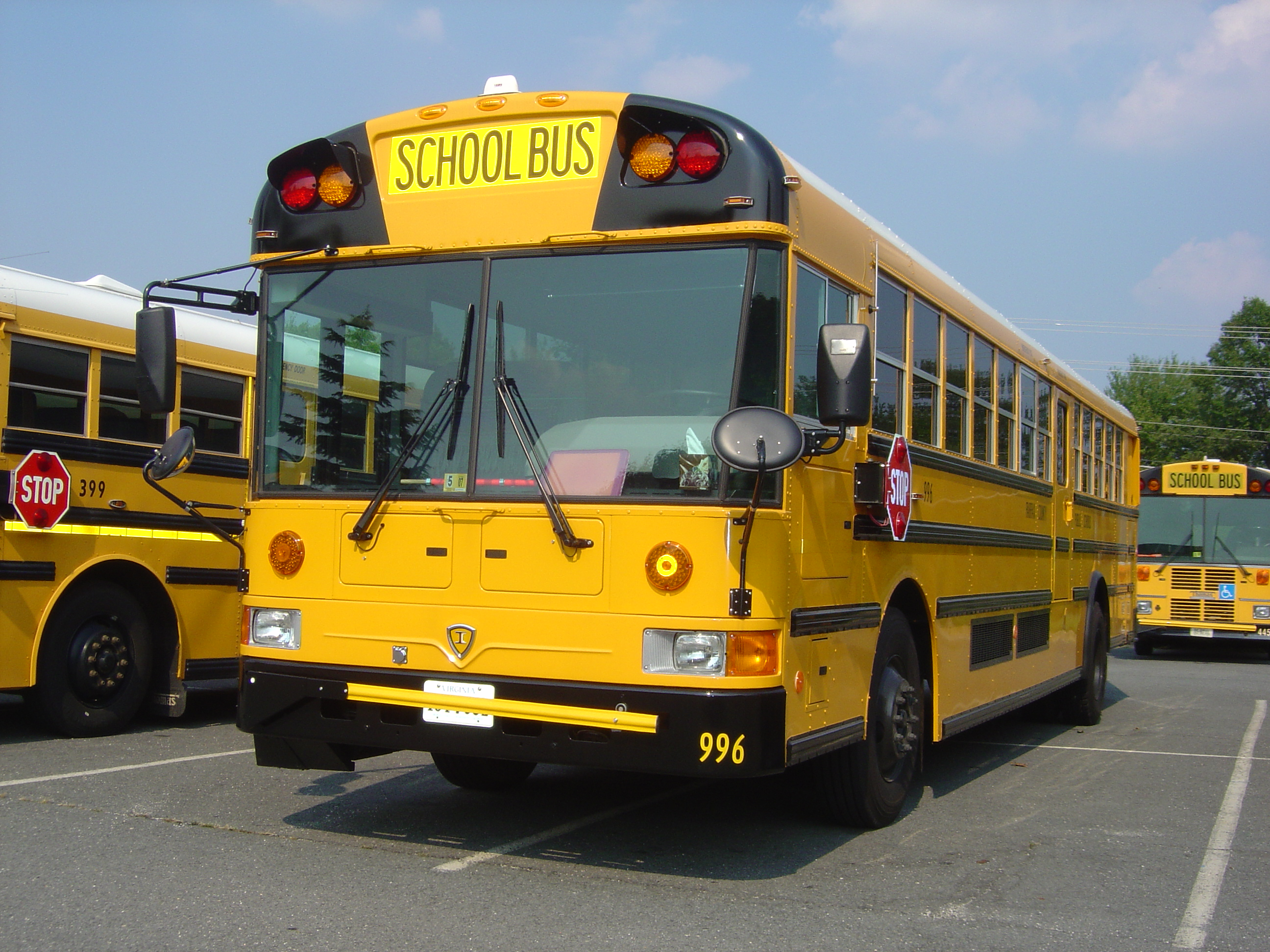 2007 IC RE 300 Of Fairfax County Public Schools Fairfax, Virginia